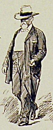 Constantine B. Kilgore, US Representative from Texas